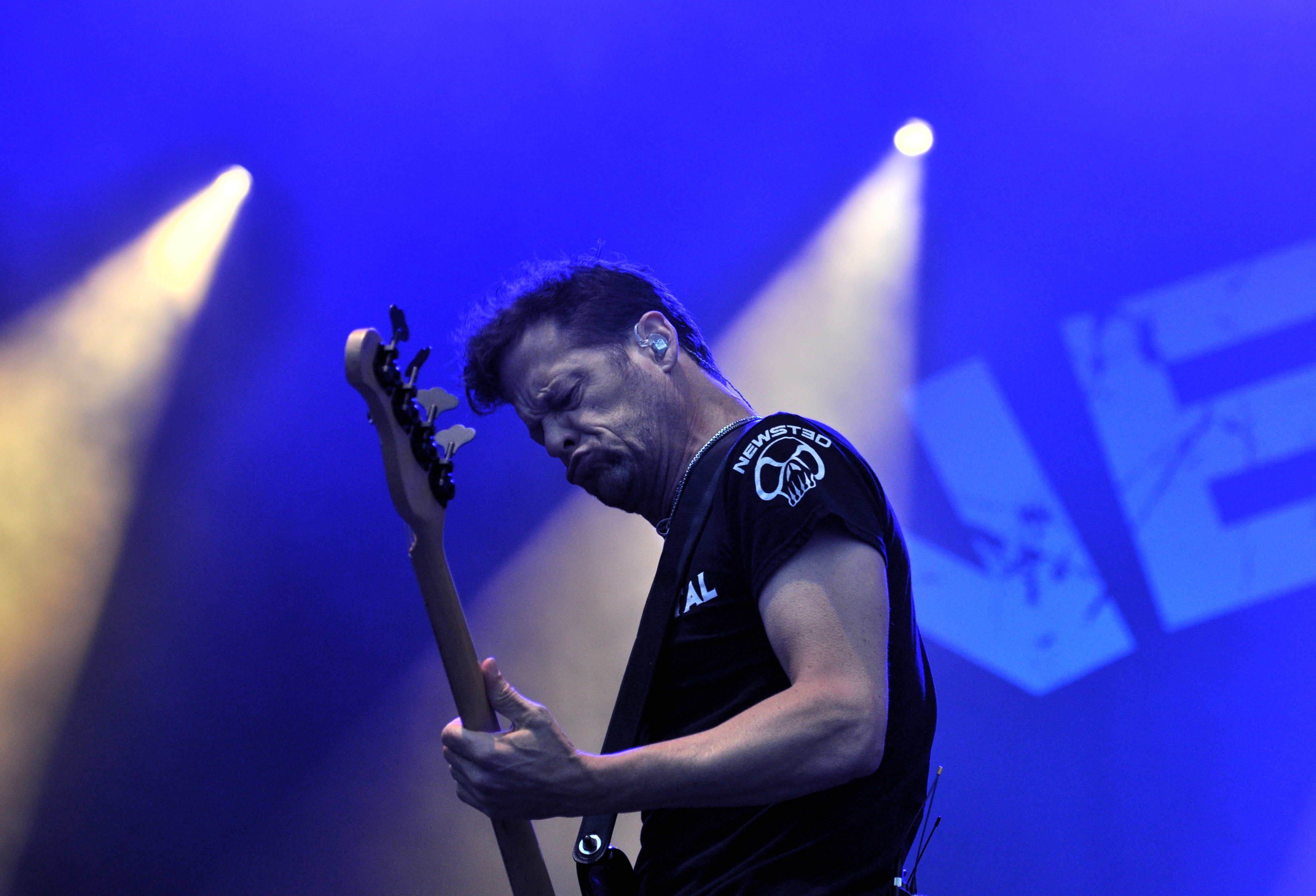 Jason Newsted with his Band Newsted at Rock am Ring 2013